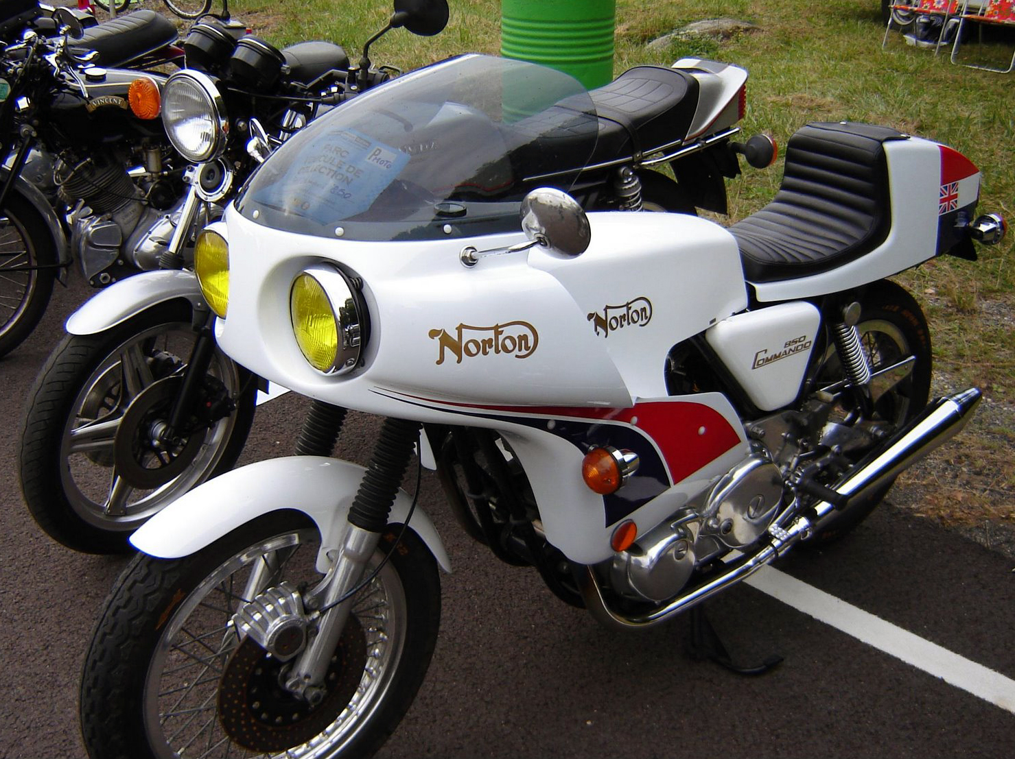 Norton 850 Commando "John Player Norton" at the Autodrome Héritage Festival, at Montlhéry 2009. Only about 200 of these special edition Commandos were built, featuring full fairing and Union Jack livery. The bikes commemorated Norton's recent racing successes (sponsored by John Player Special), with a double victory in the 1973 Isle of Man TT. Yellow headlights are due to this example bing registered in France.